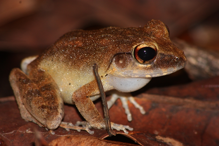 Platymantis papuensis calling on the forest floor on Normanby Island, Papua New-Guinea